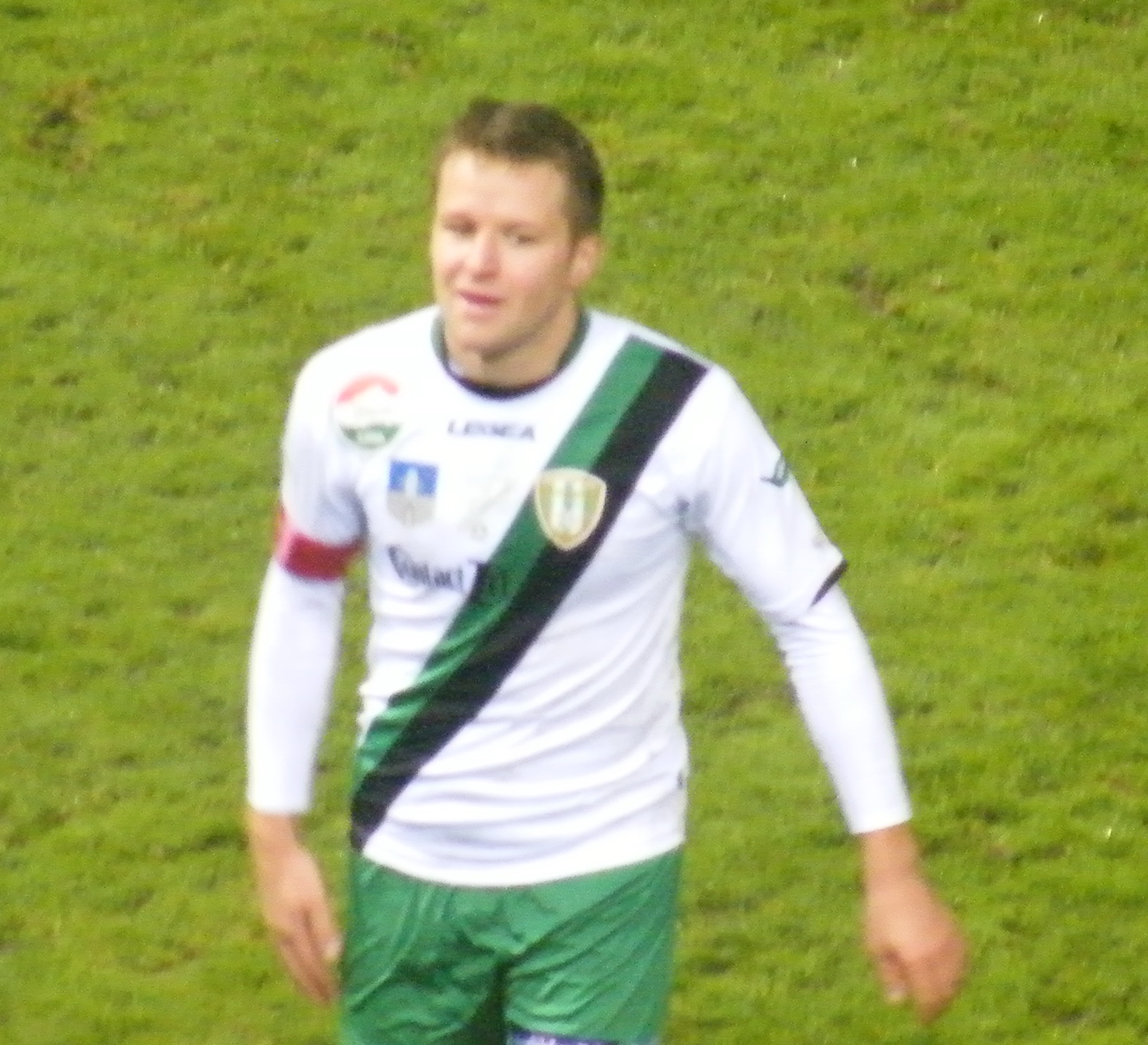 Péter Tóth Hungarian association football player.